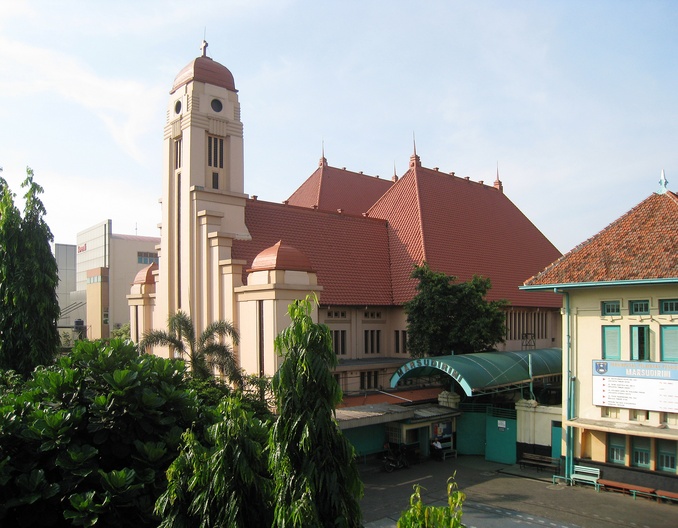 Saint Joseph Catholic Church, Matraman, Jatinegara, Jakarta. One of old colonial buildings in Meester Cornelis (now Jatinegara), Jakarta.